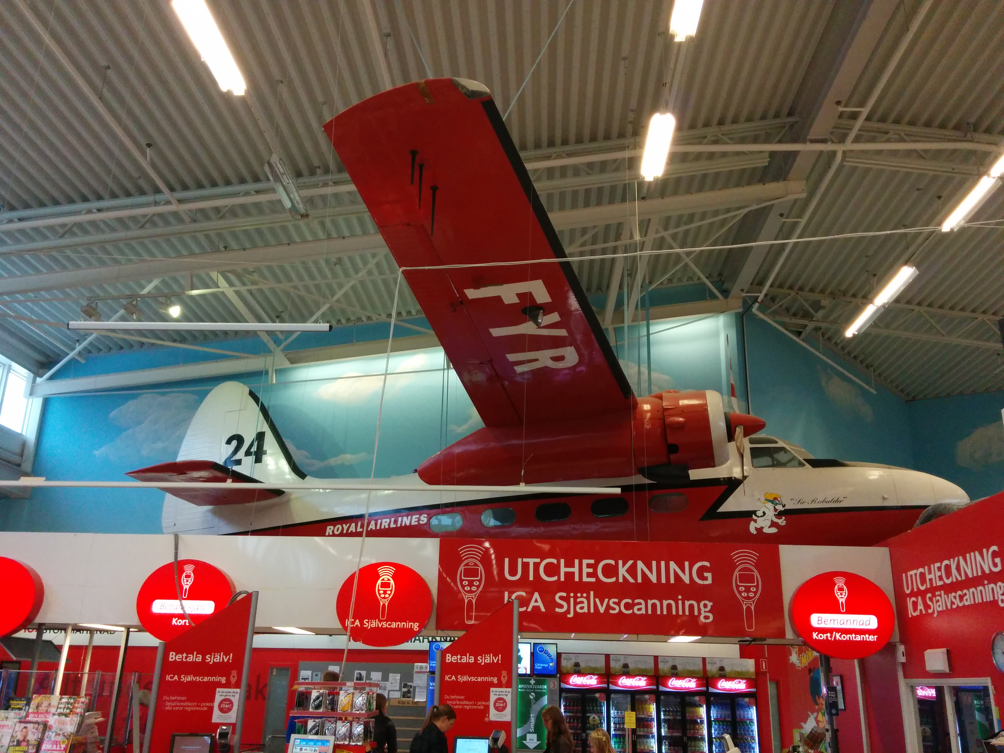 Tp 83 Pembroke on display at ICA Maxi, Eurostop, Märsta, Sweden.